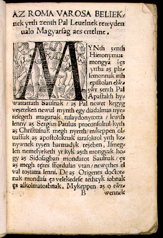 A page from the Hungarian book Az zenth Paal leueley magyar nyeluen of Benedek Komjáti.